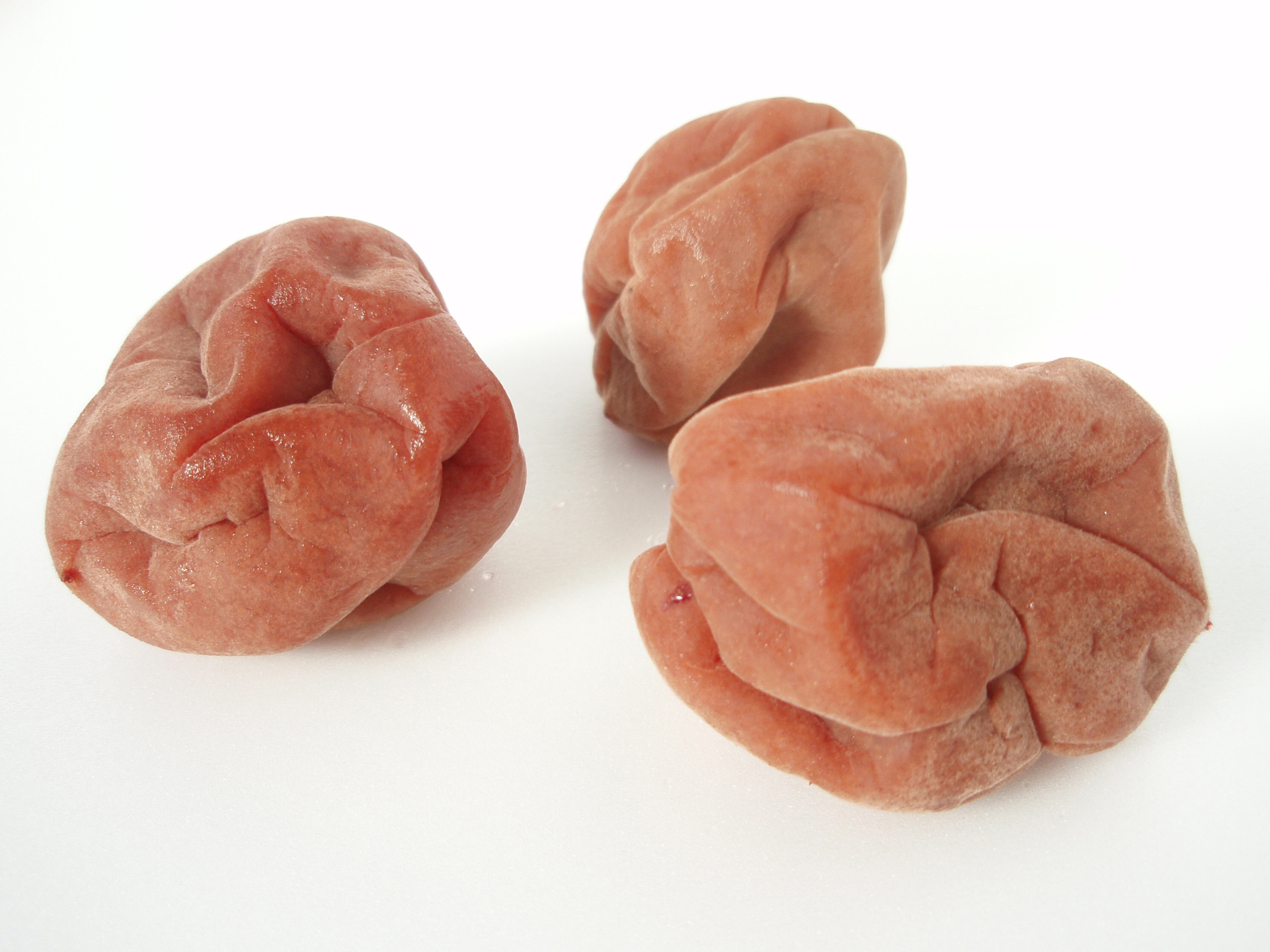 Umeboshi are pickled ume fruits common in Japan.